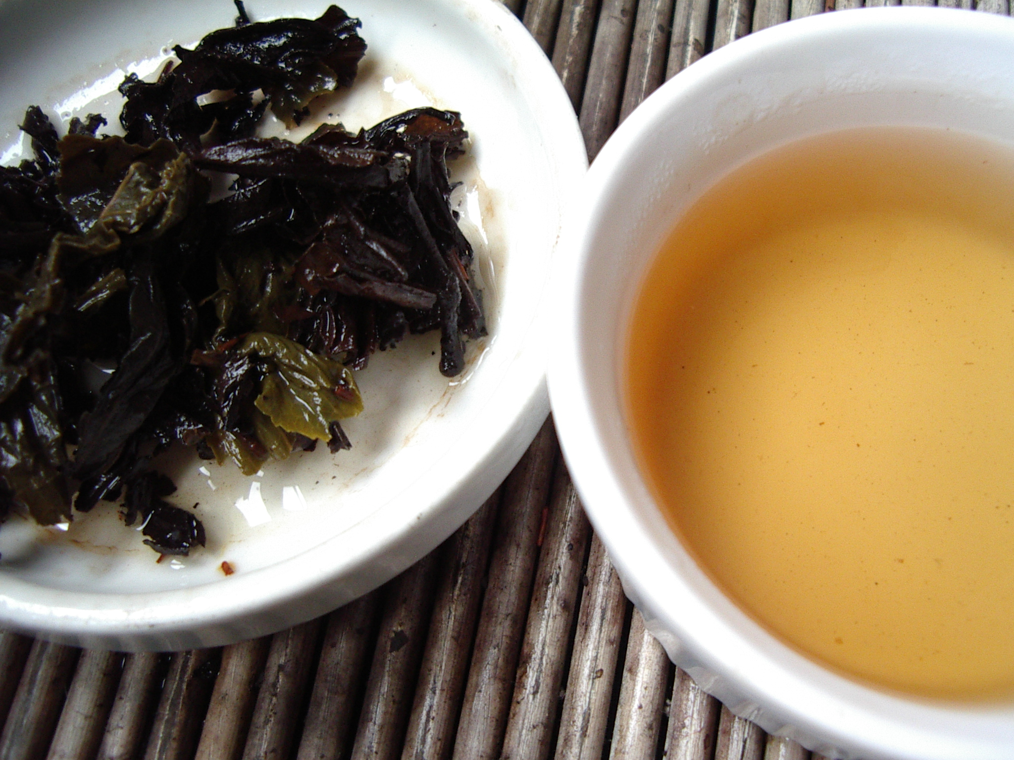 Tieguanyin tea brewed, with leaves